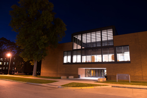 After a beautiful renovation in 2013, Cartwright Hall houses classroom space, meeting space, cutting edge technology, and the faculy and administration of Drake Law.